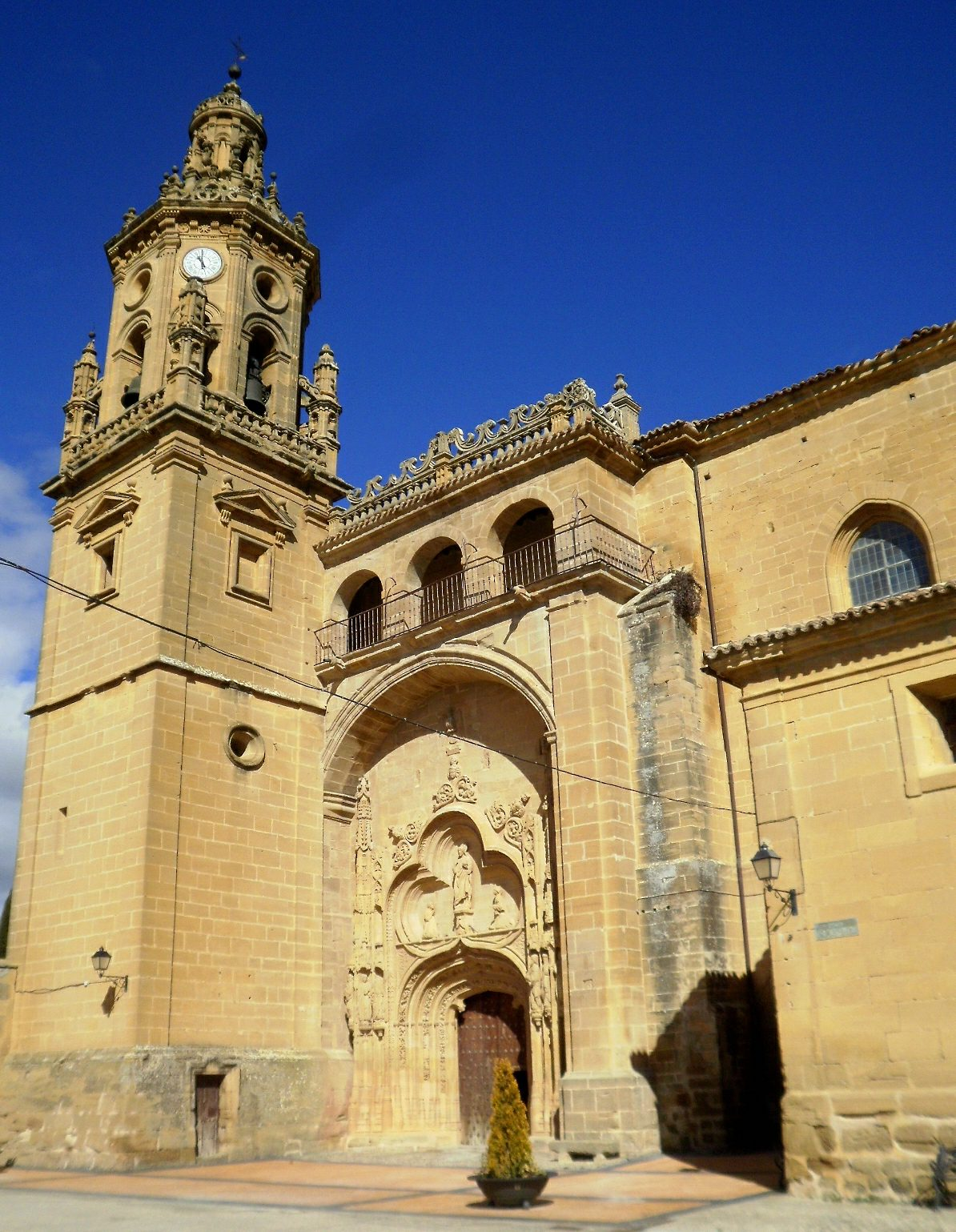 Iglesia de San Esteban Protomártir, en Ábalos (La Rioja, España)